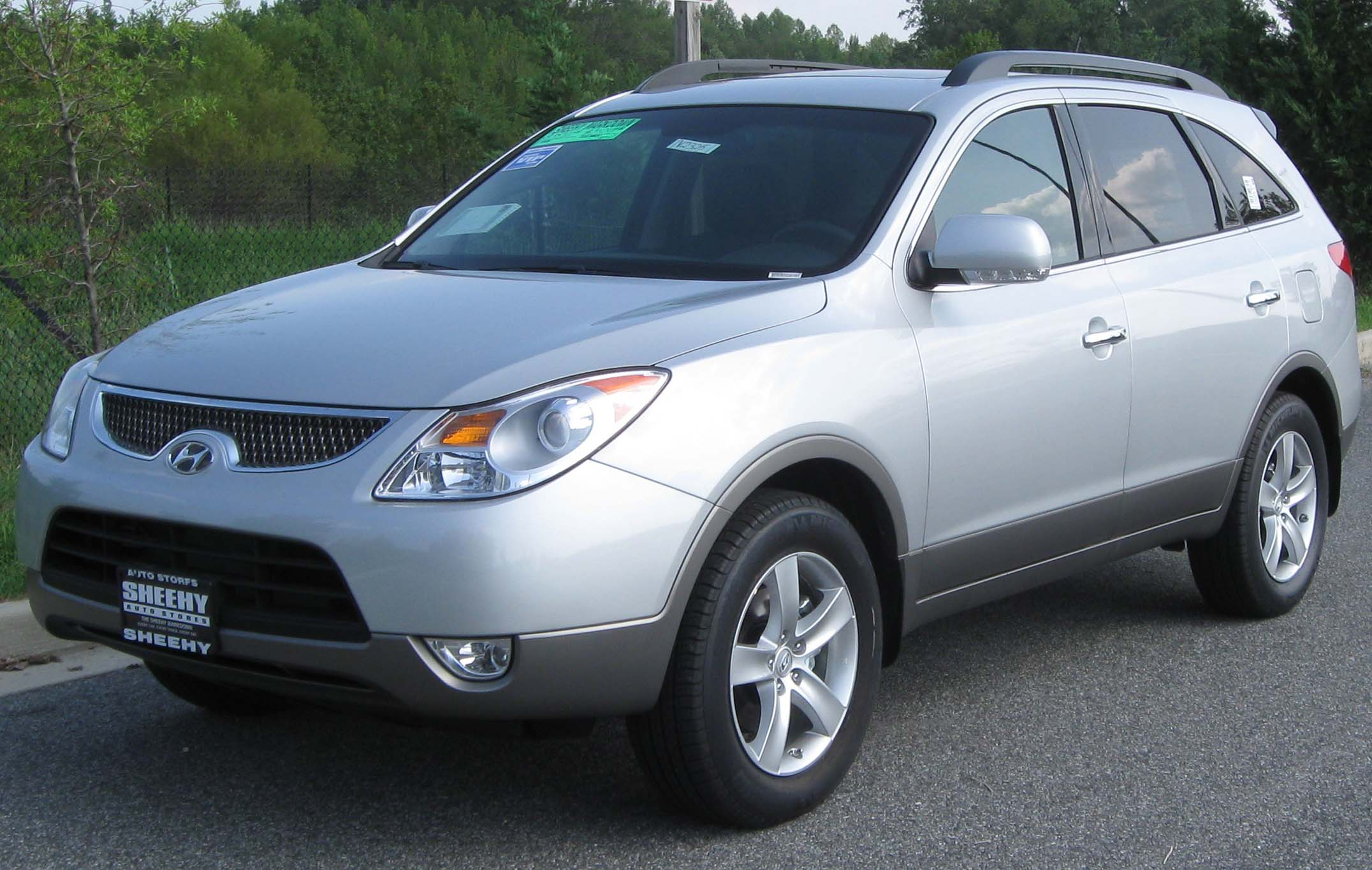 2010 Hyundai Veracruz photographed in Waldorf, Maryland, USA.